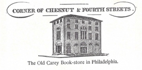 This photo depicts the office location of Carey & Hart, which shared office space with Carey's brother's publishing firm, Carey & Lea. The Old Carey Book-store was located at the corner of Chestnut and Fourth Streets. From American Lands and Letters: Leatherstocking to Poe's "Raven", New York: Donald G. Mitchell, 1899: pg. 12.